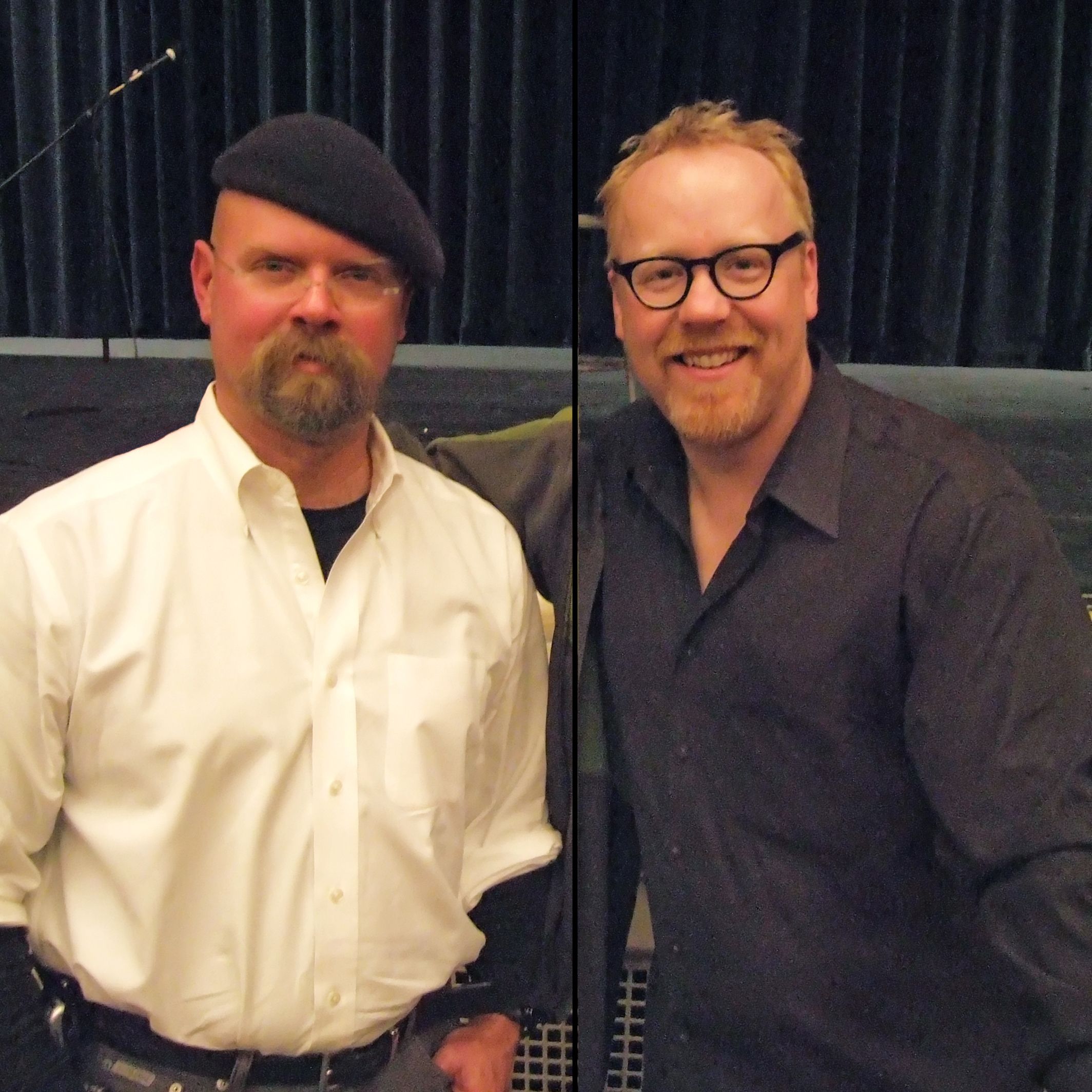 Jamie Hyneman & Adam Savage, from the TV program Mythbusters (photomontage)